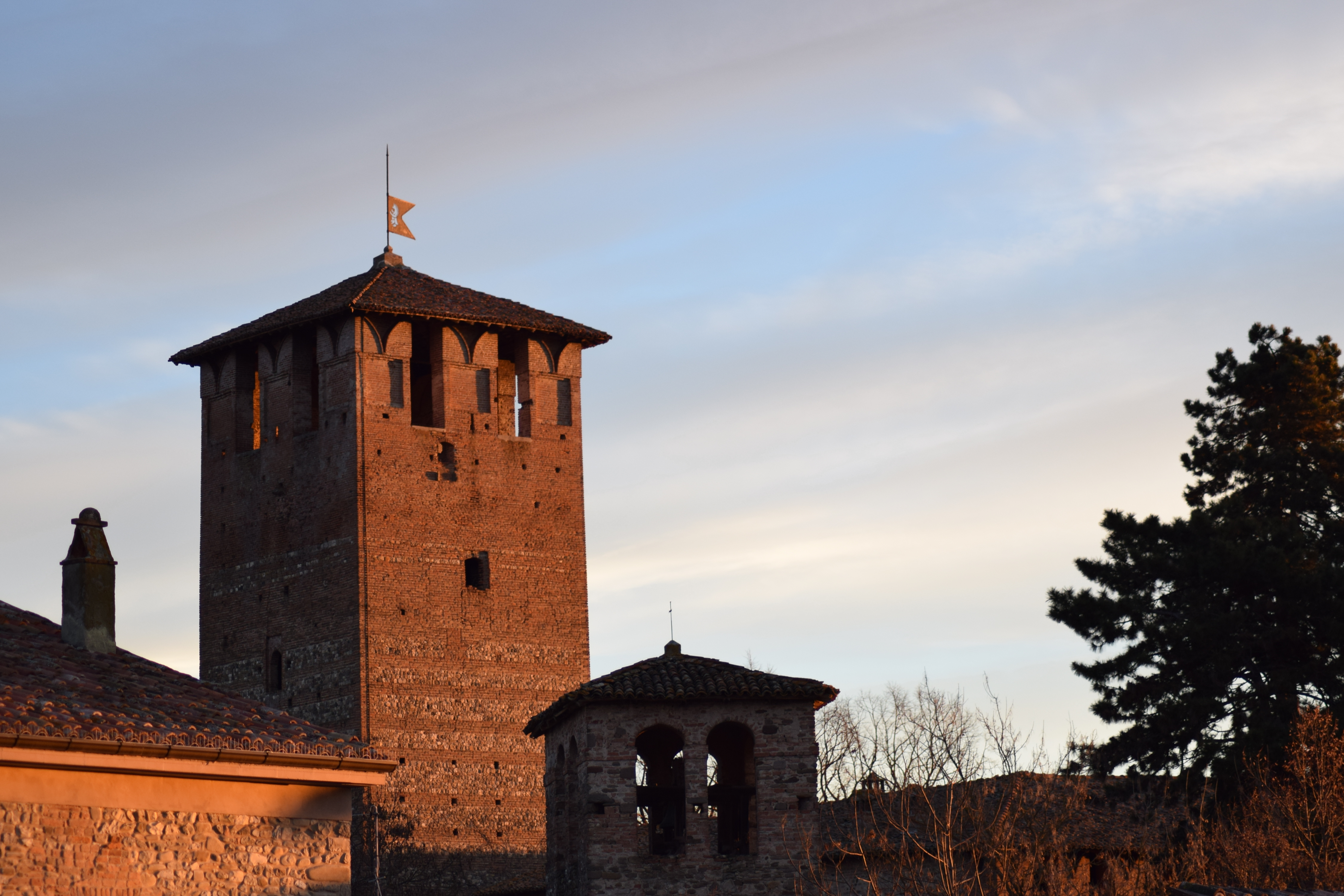 the Vigolzone' s castle with the sunset' s colors